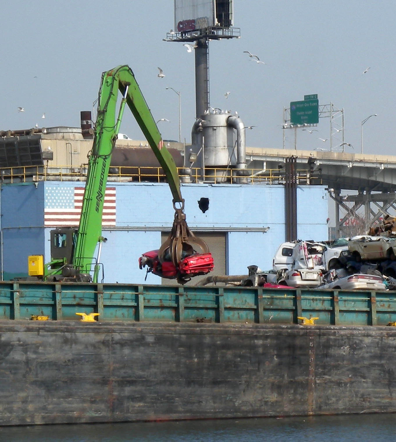 Looking northeast across Newtown Creek from Greenpoint as a claw crane in Queens loads an automobile onto a scrap barge on a sunny early afternoon.